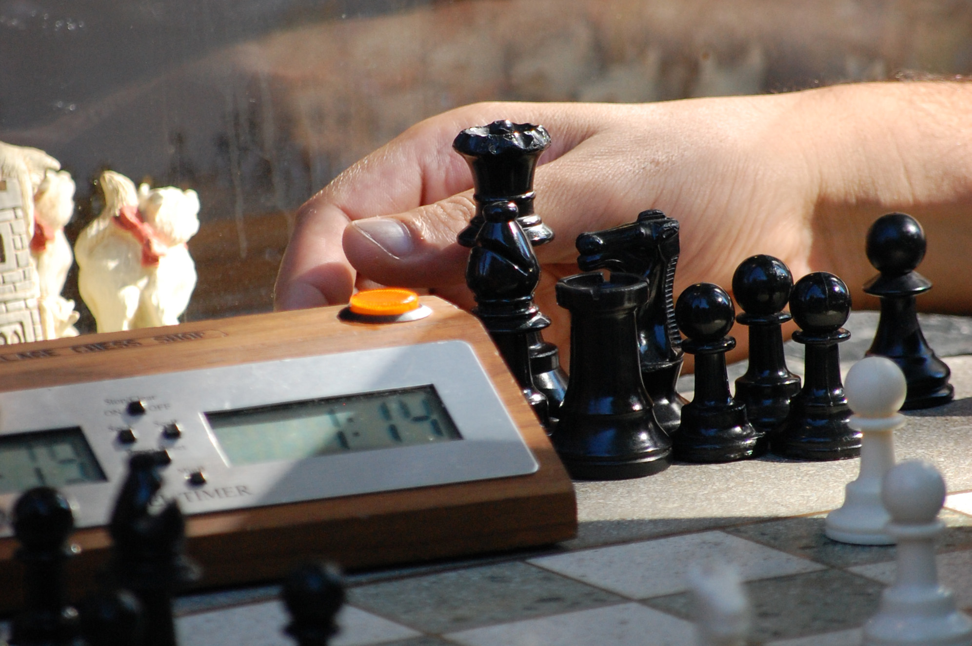 Chess